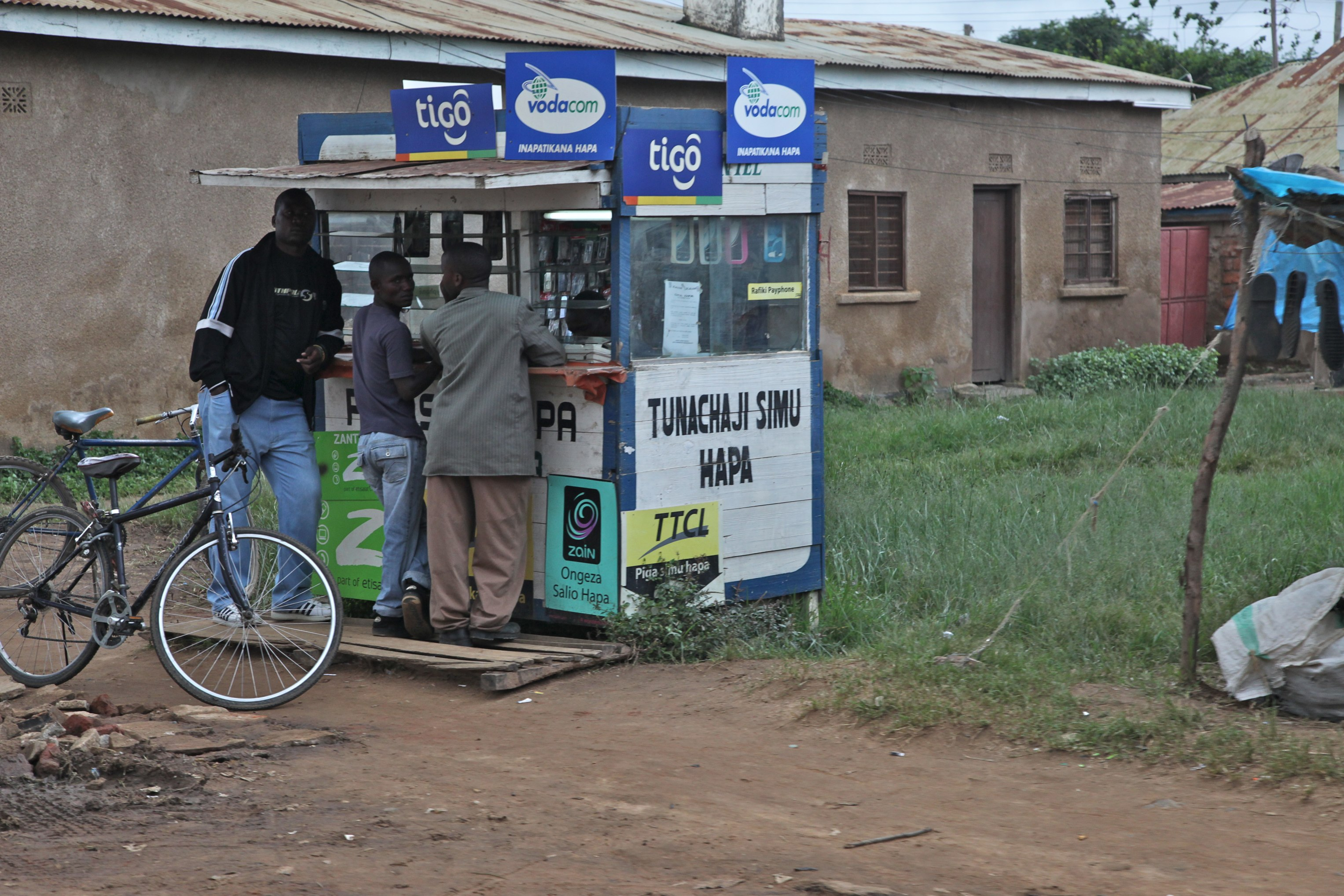 Cell phone shop in Sumbawanga, Tanzania